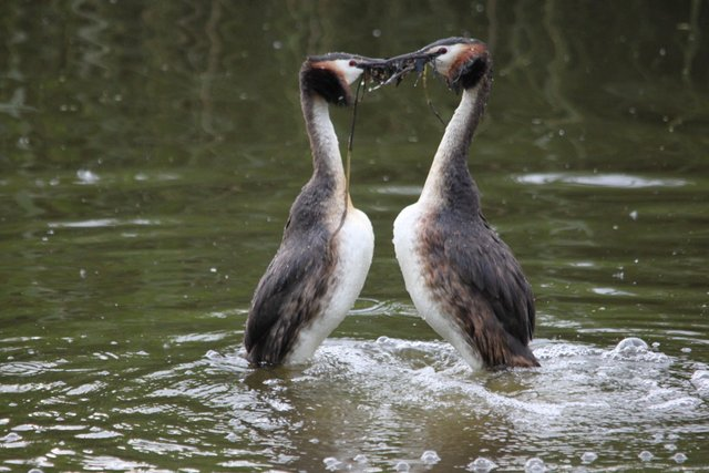 Grebes showing love in the balsperiod